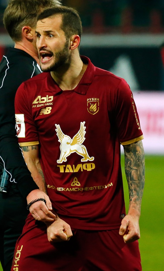 Fyodor Kudryashov with FC Rubin Kazan in a game against FC Lokomotiv Moscow.